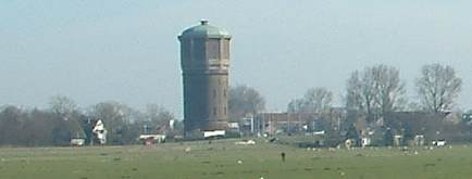 Water tower in Assendelft.